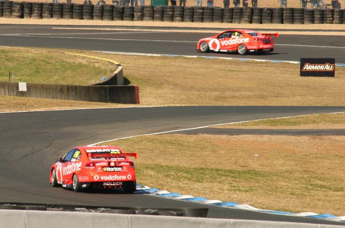 The Triple Eight Race Engineering Holden VE Commodores of Jamie Whincup and Craig Lowndes during qualifying for the 2012 Sydney Motorsport Park 360.